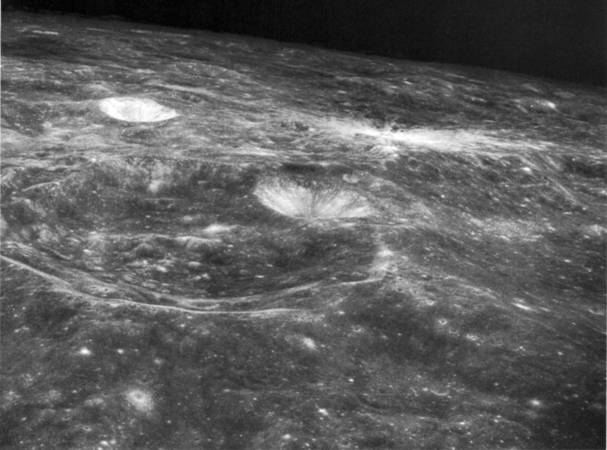 Oblique view of part of Saenger (right of center), and Saenger P (left of center), on the moon. Also visible are bright craters Saenger Q (center), and Saenger R (upper left). The crater with bright rays at right is apparently unnamed.This image was published in Lunar Photographs from Apollos 8, 10, and 11 (NASA SP-246, 1971) and it has the following caption:A large, unnamed, far-side crater with a smaller crater on its outer rim is shown in the foreground of this oblique photograph. A small bright crater (left center) and a recently formed crater with a distinctive ray pattern (right center) can be seen.